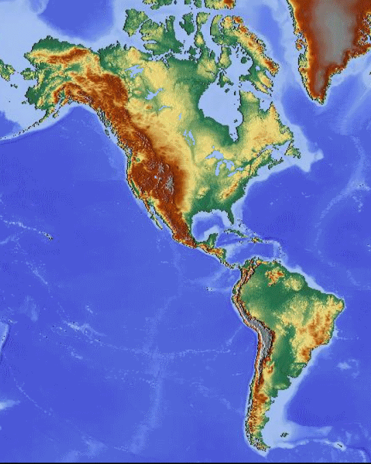 America relief map (mercatorian projection)